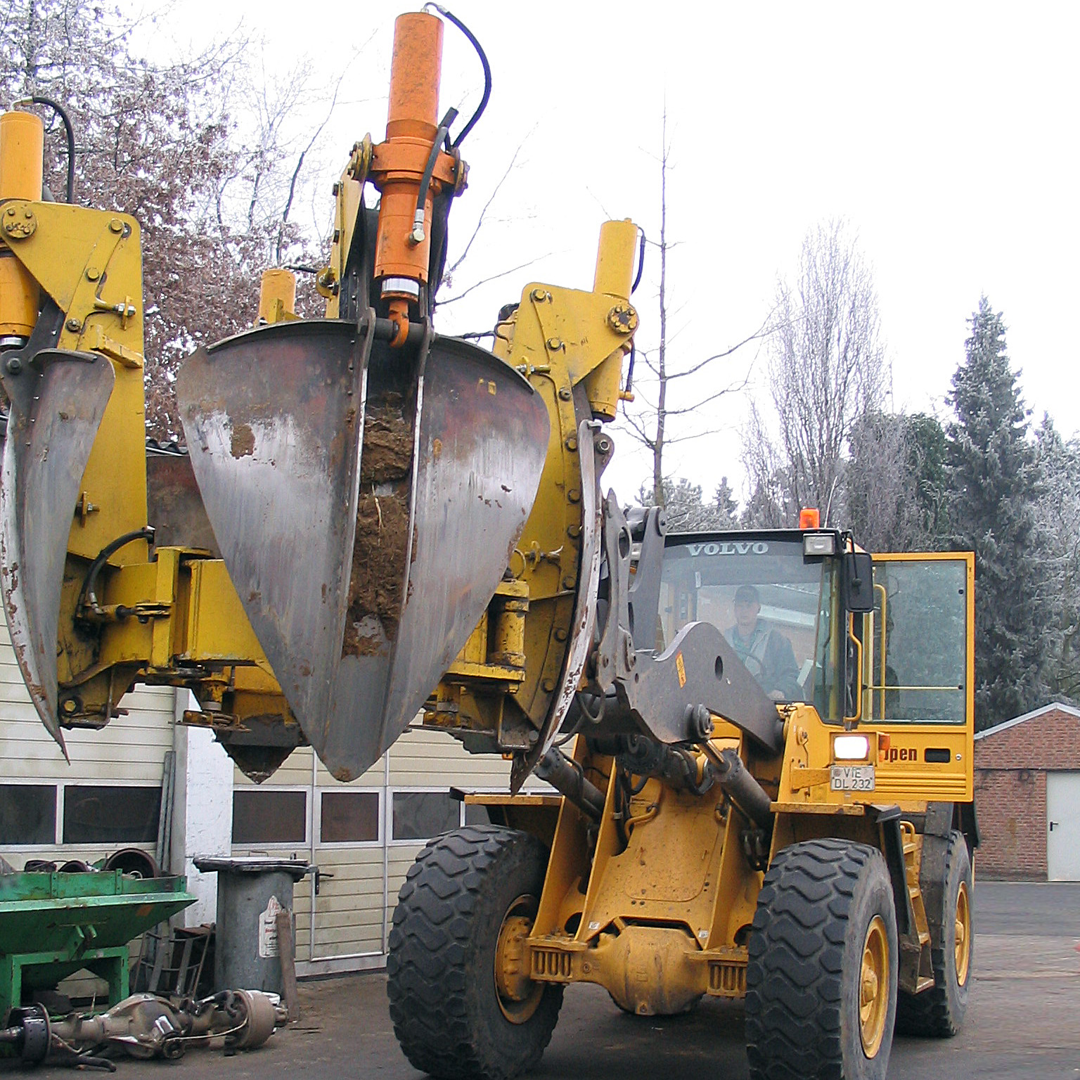 Tree spade